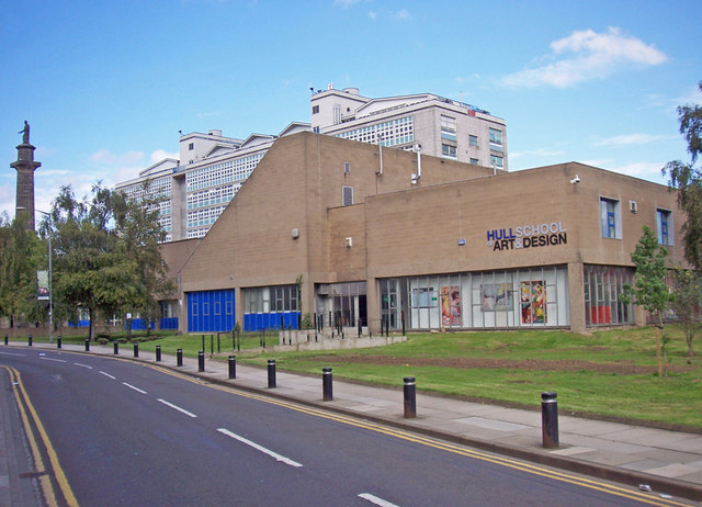 Hull School of Art and Design Photo taken from Lowgate.